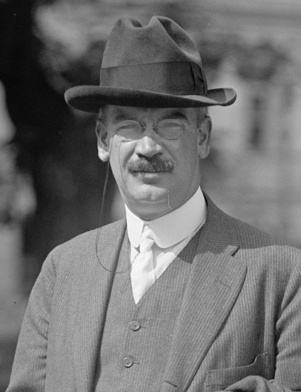 John J. Fitzgerald (1872-1952), rep. from New York, 1899-1917